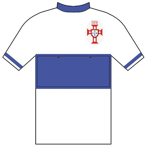 Cycling jersey of Iluminante team in the years 1944, 45 and 46.